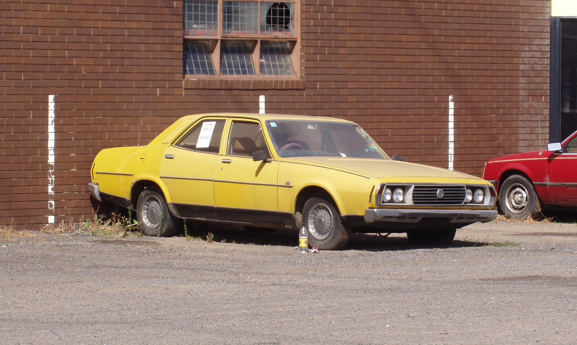 30 years after birth and death, and the poor old Leyland P76 still has few friends. Great concept, executed not-as-well as it should been. The car's gone down in history - unfairly, I say - as Australian motoring's greatest lemon. This one was spotted in a wrecker's yard on Mahoney's Road, Thomastown. Asking price? $900. Was there for over a year, until the business moved...